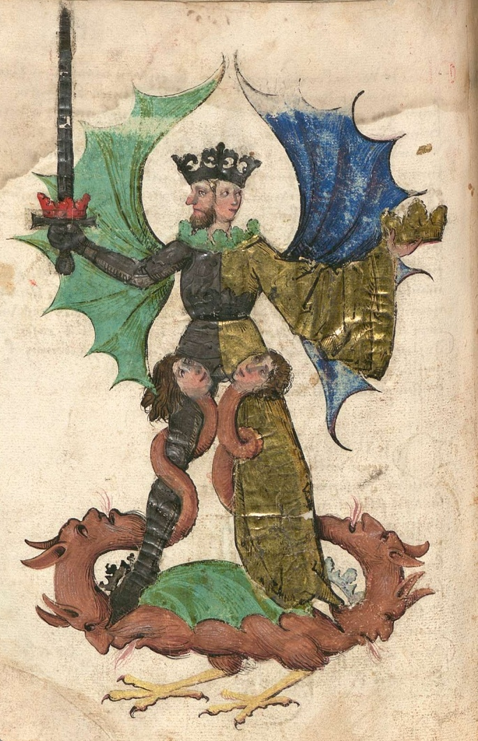 The Grand Hermetic Androgyne trampling underfoot the Four Elements of the Prima Materia.